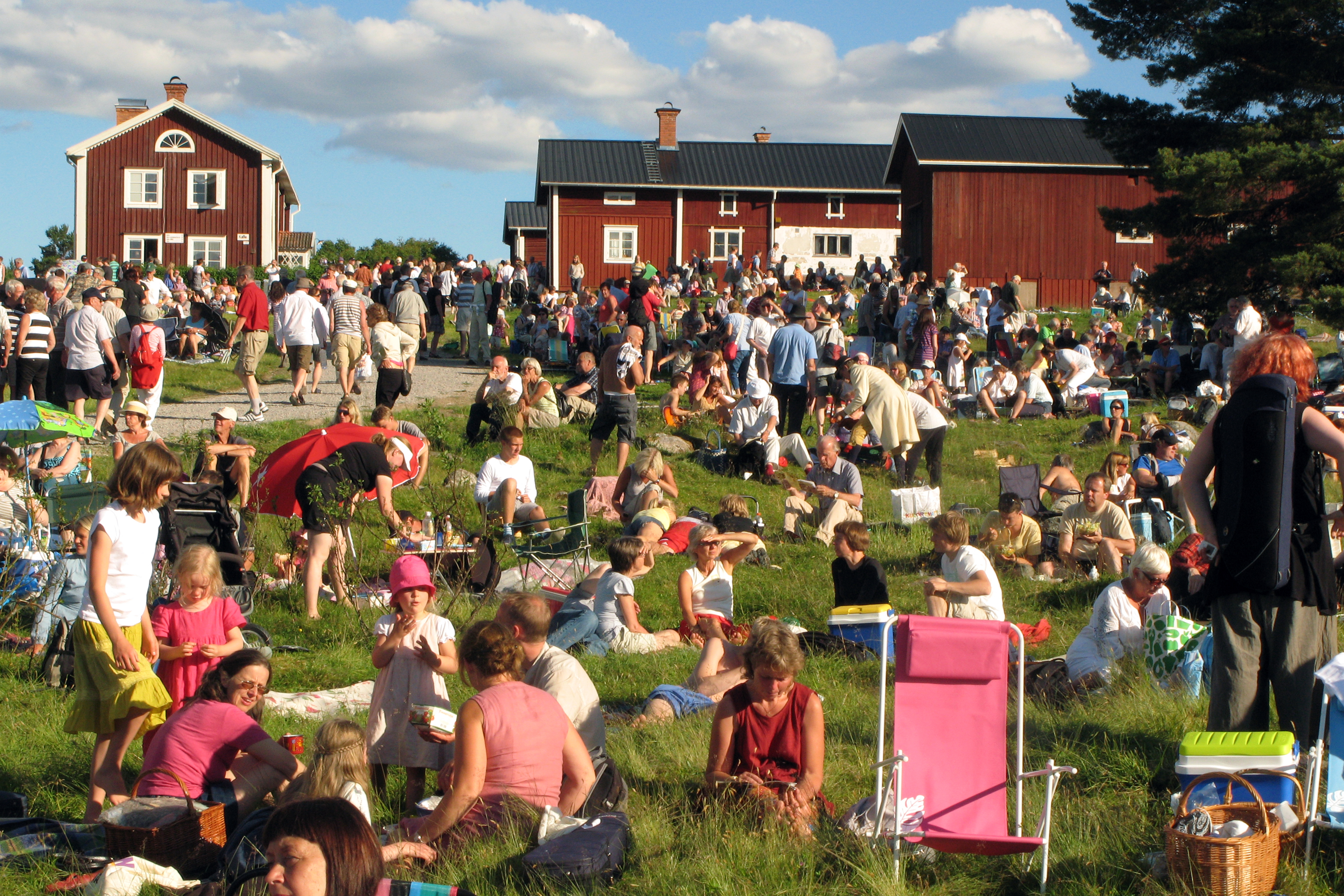 Bingsjöstämman 2010. Folk music festival first Wednesday in July in Dalarna, Sweden. Pekkos farm in background.